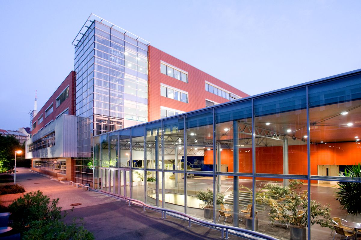 Rajská Building - University of Economics, Prague